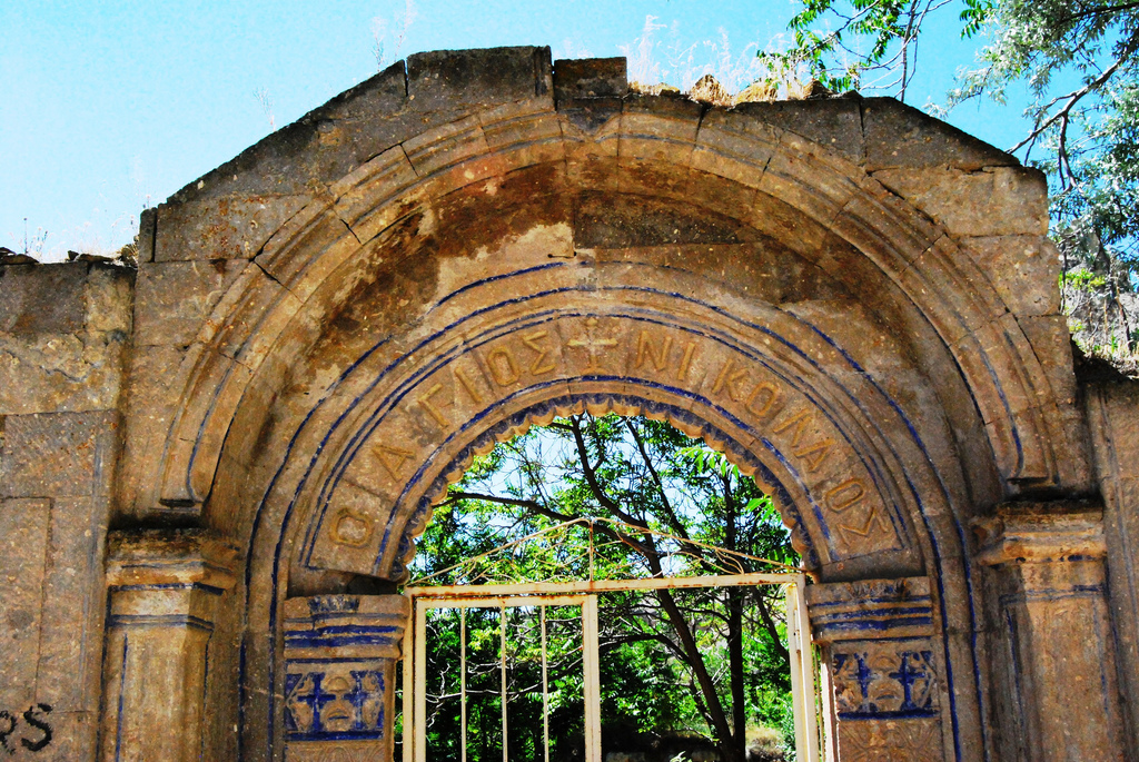 Here are some reasons why you should travel to Turkey. Turkey is a melting pot of many cultures and religions and bridge between continents. With more Greek ruins than Greece, more ancient Roman sites than Italy, irrefutably Turkey is the cradle of civilization. Here are some reasons why you should travel to Turkey.